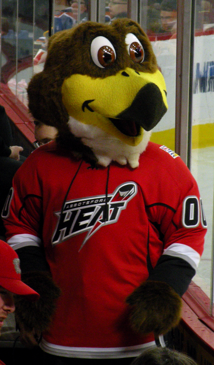 Abbotsford Heat mascot Hawkey entertains the crowd during an American Hockey League game against the Oklahoma City Barons at the Scotiabank Saddledome in Calgary.